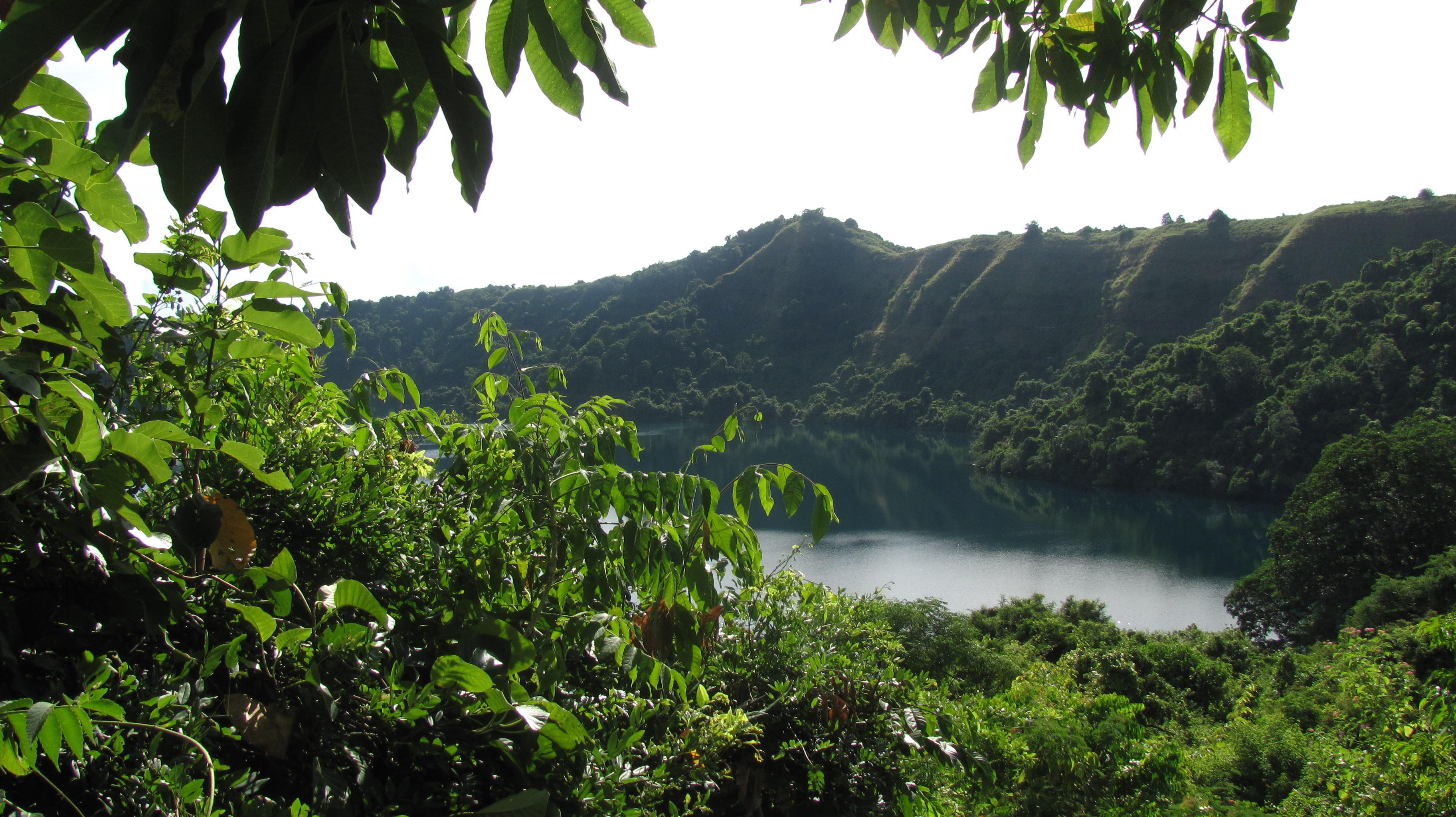 Crater lake, Satonda Island, Indonesia